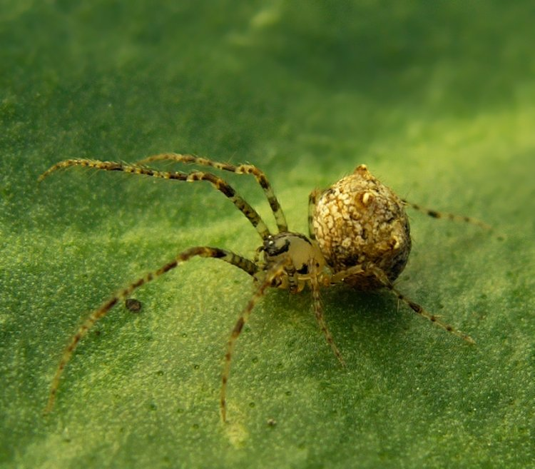 Ero aphana, female